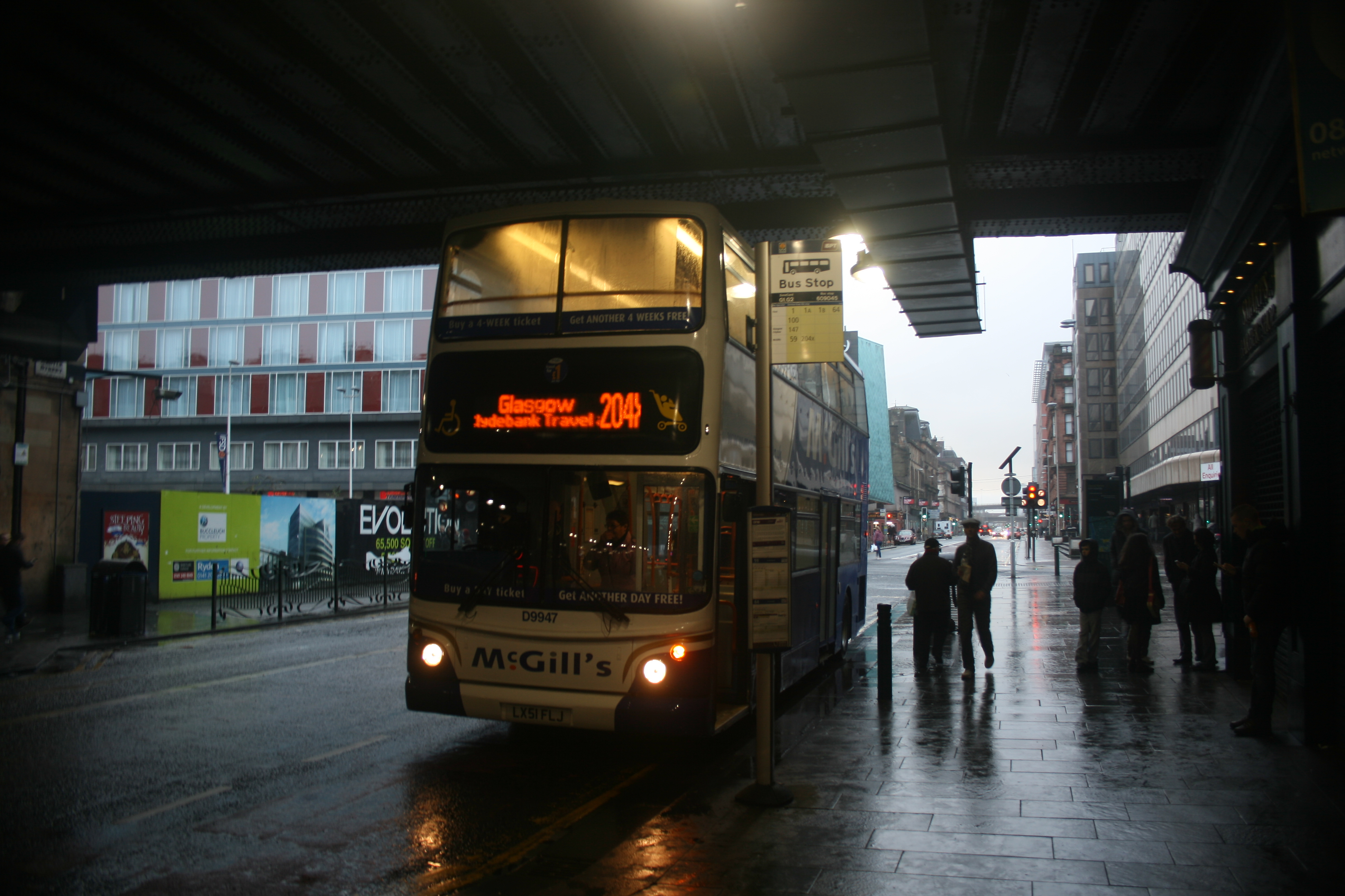 A McGill's TransBus Trident 2/with ALX400 bodywork, registration LX51 FLJ, under Glasgow Central station with the route 204X returning to Glasgow city centre.